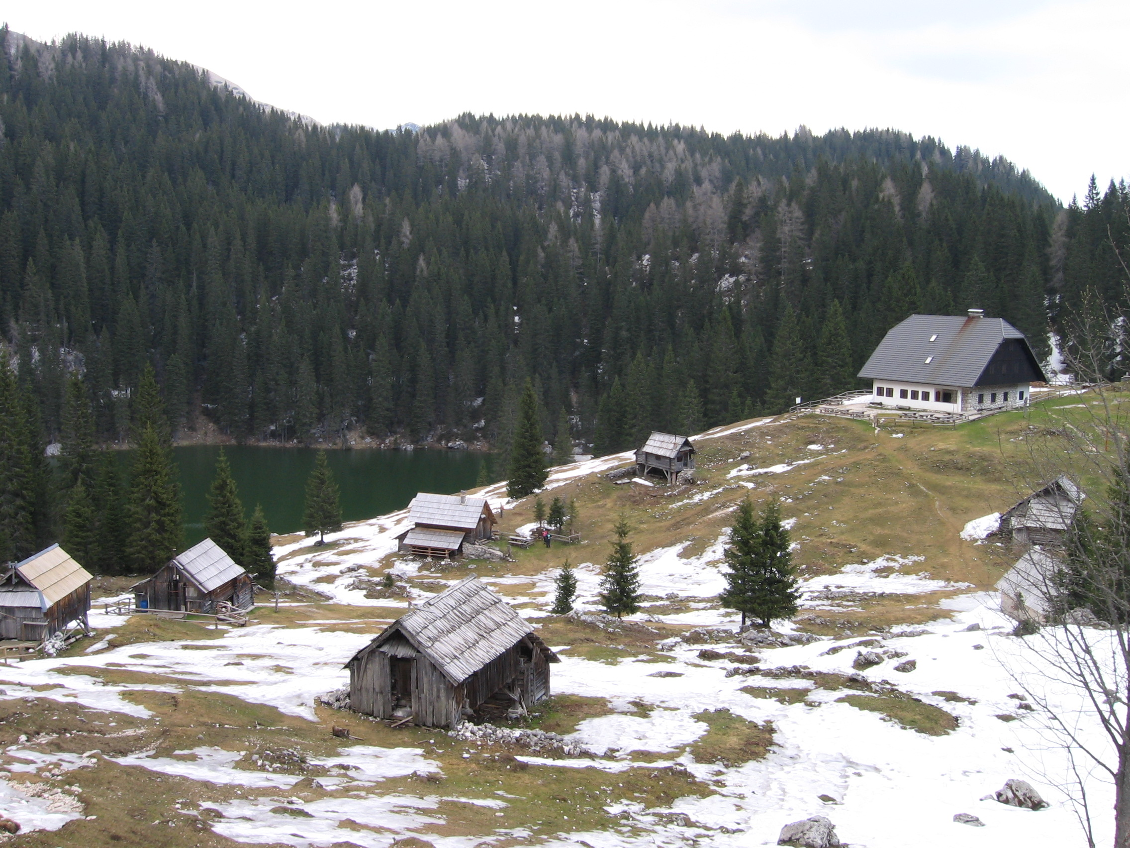 Meadow by the lake - Jezero above Bohinj lake, Slovenia